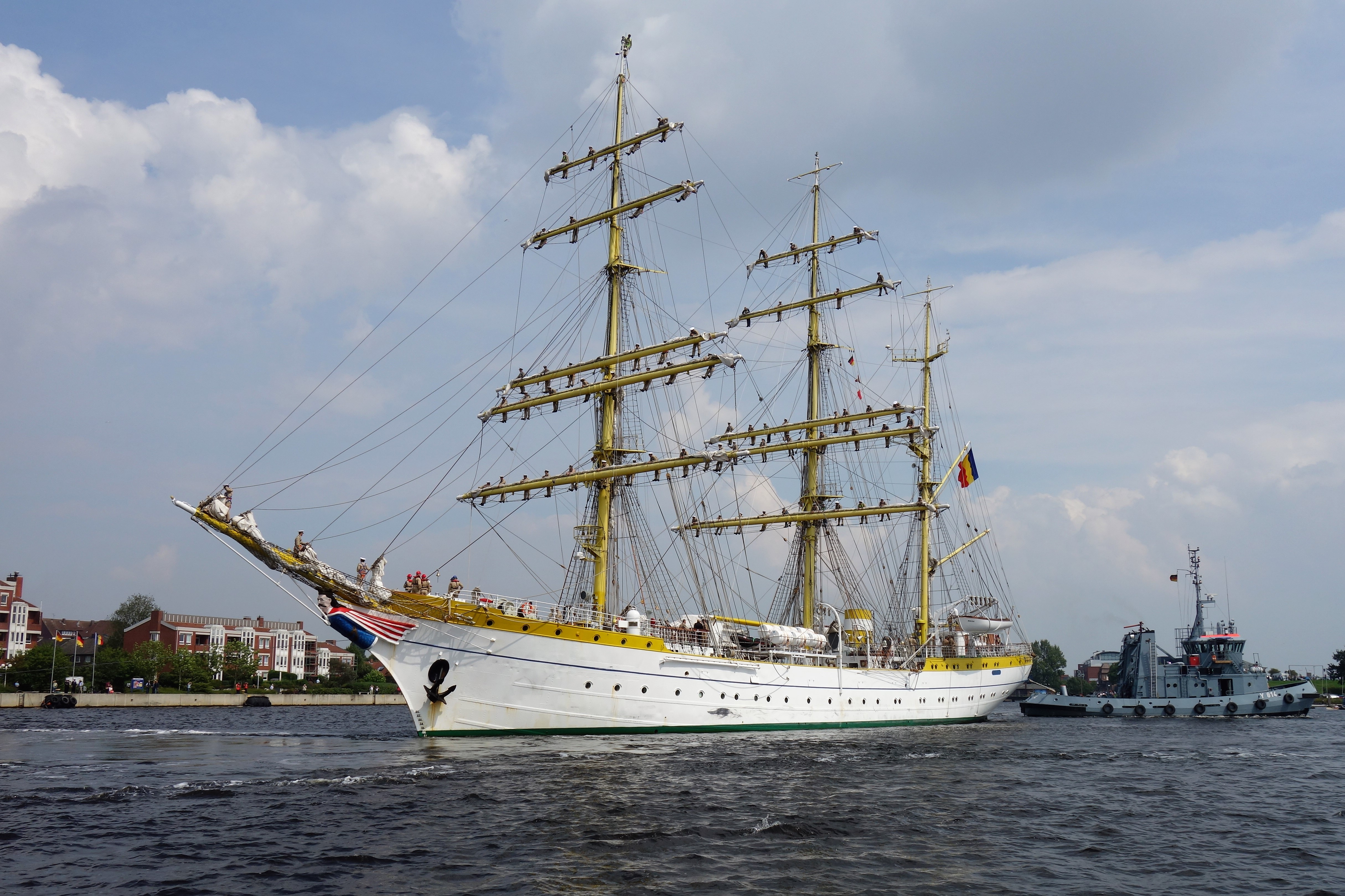 Romanian sail training ship Mircea arrives Großer Hafen, part of the inner harbour of Wilhelmshaven